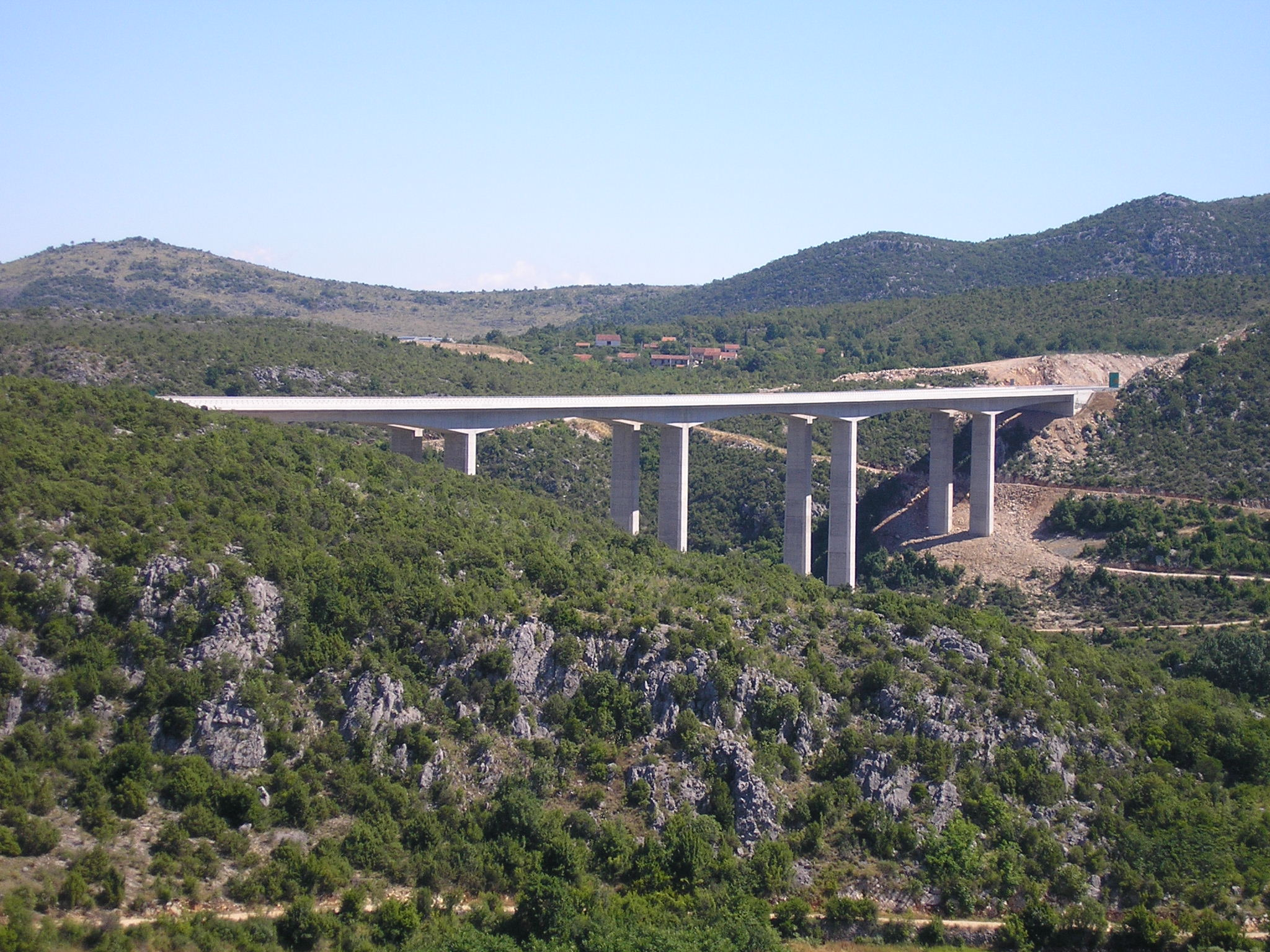 Trebižat bridge, near Stubica